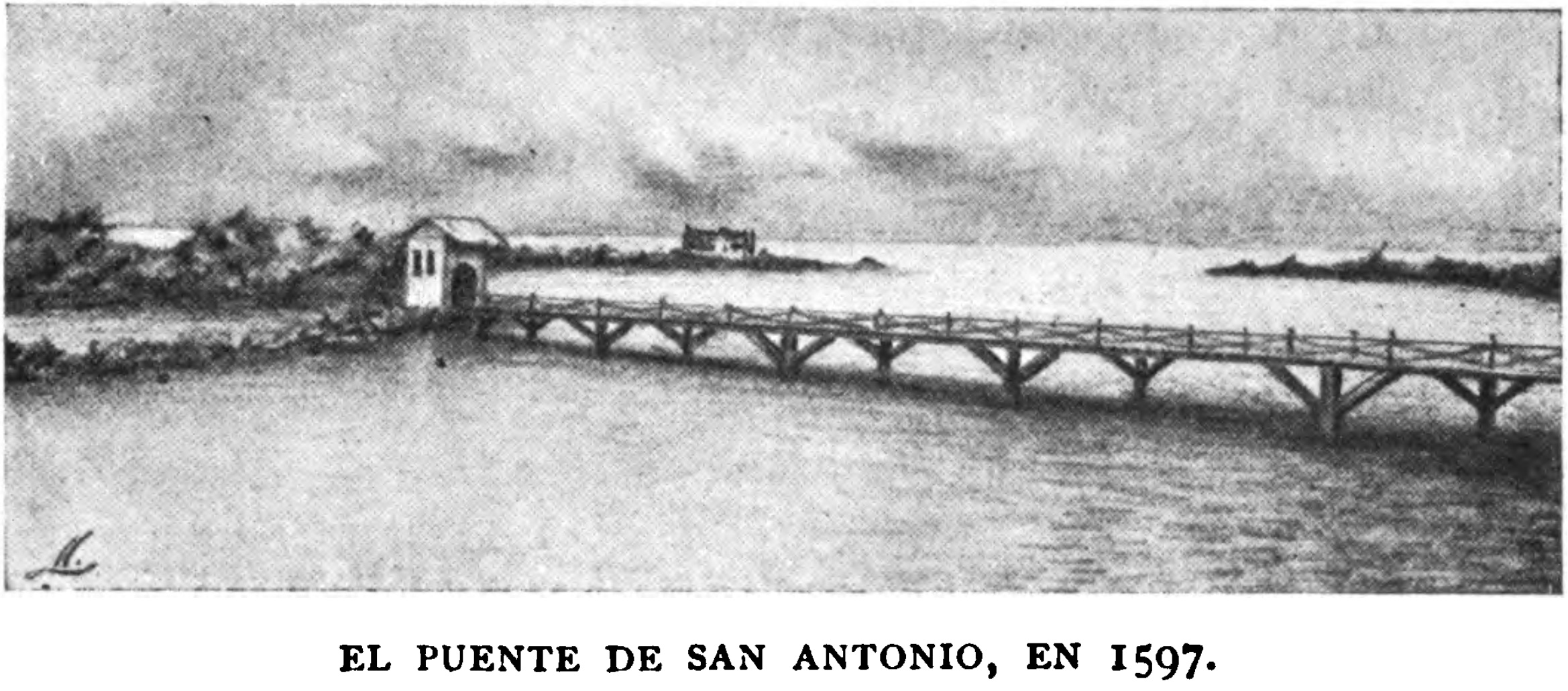 Bridge over the San Juan Bay, in Puerto Rico. Picture from the book: Salvador Brau, Historia de Puerto Rico, page 109